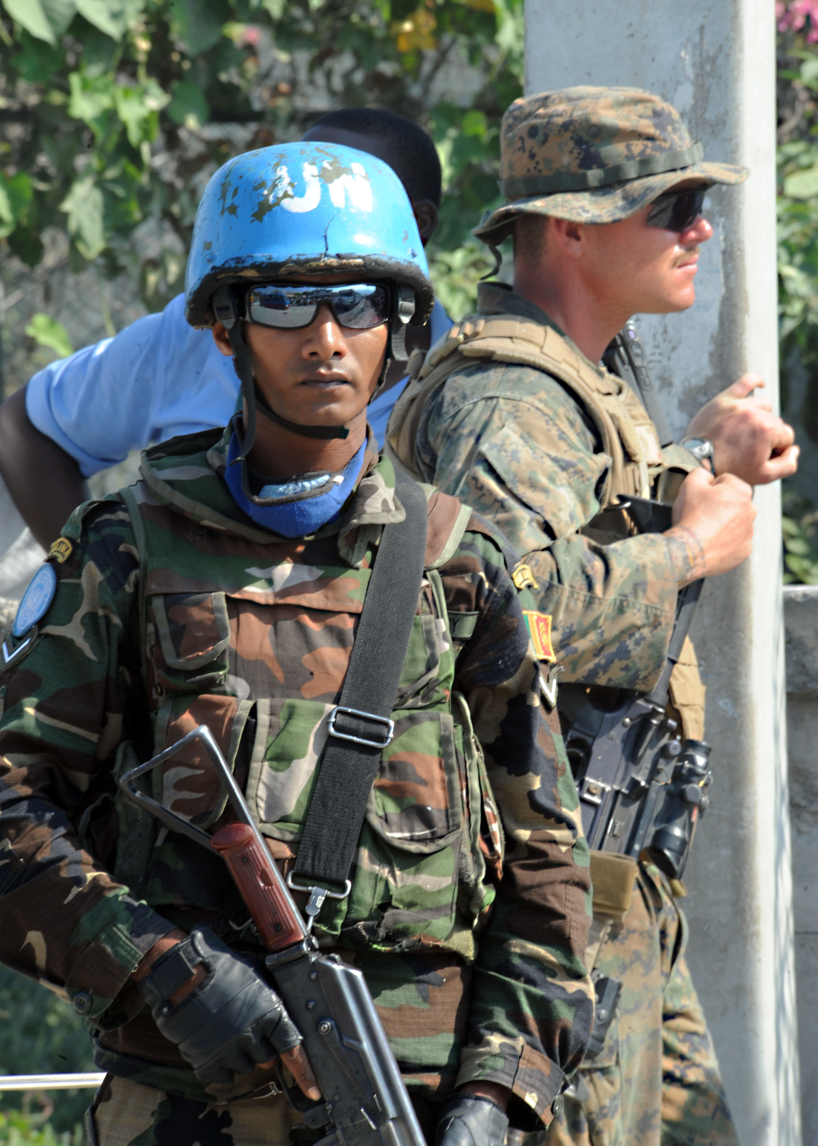 U.S. Marines and United Nations peacekeepers from Sri Lanka provide security at a food distribution point in Carrefour, Haiti, Feb. 16, 2010. Lance Cpl. Sean Bonnell is responsible for counting people at a checkpoint and ensuring no one cuts in line to get rice.